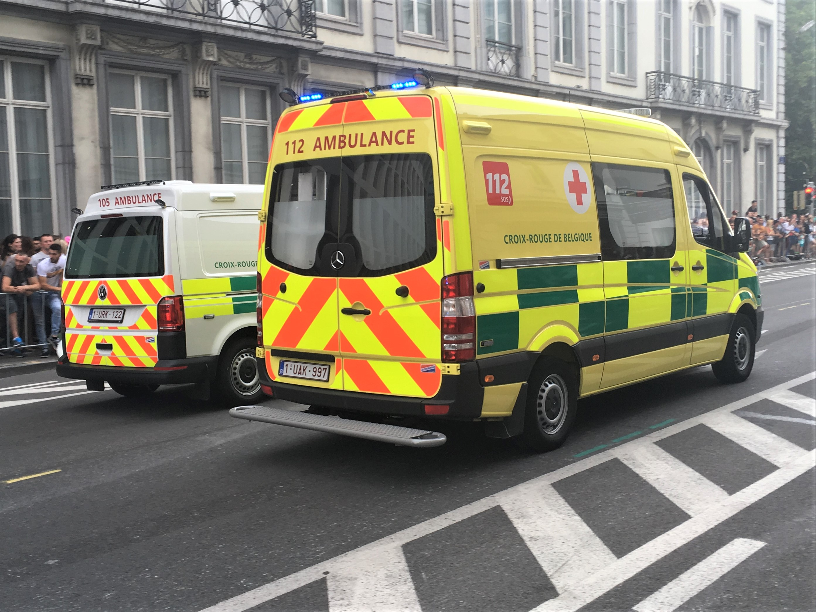 Belgian ambulances for emergency and non-emergency transports of the Red Cross with Battenburg colors during the National Parade on July 21, 2018 (backside)